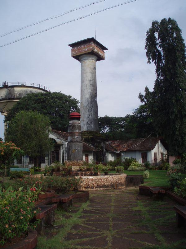 Light House Hill, Mangalore